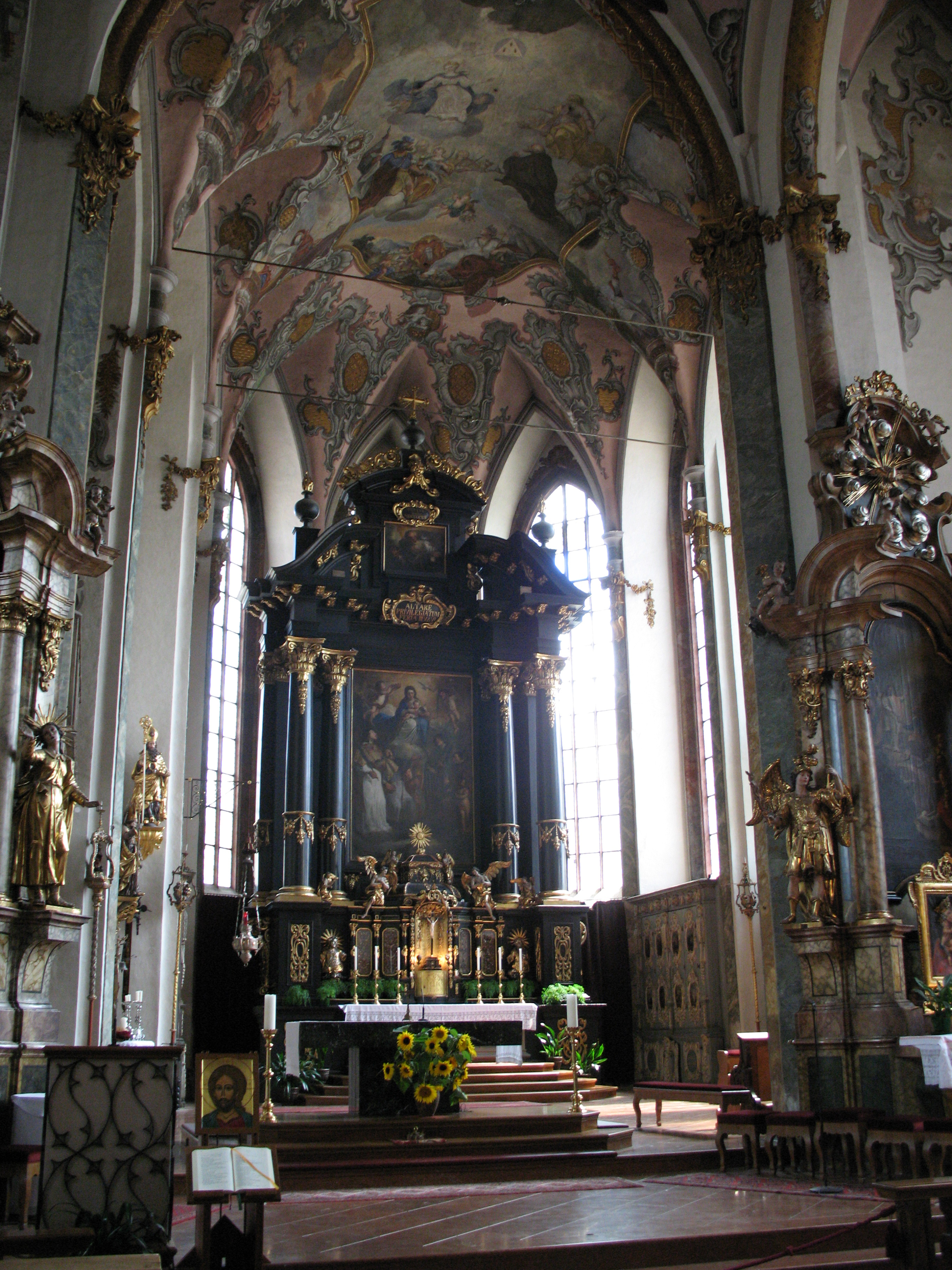 City Parish Church of Saint Nicholaus, Hall in Tirol, Austria